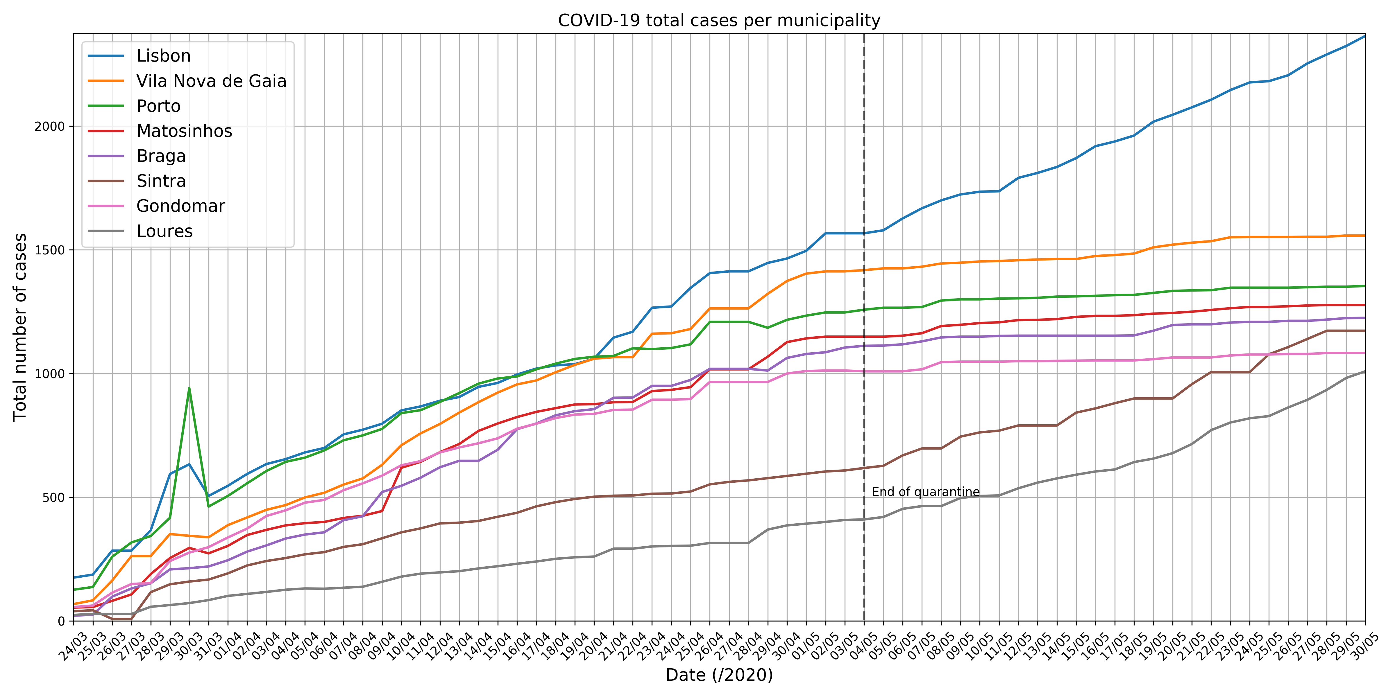 The total number of Covid-19 cases per municipality for the 6 most affected municipalities. The legend shows which municipality corresponds to which coloured line in the graph